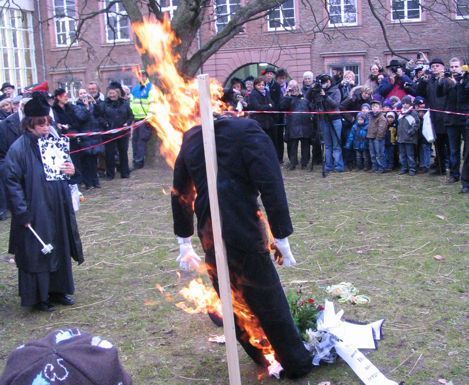 Carnival in Düsseldorf.